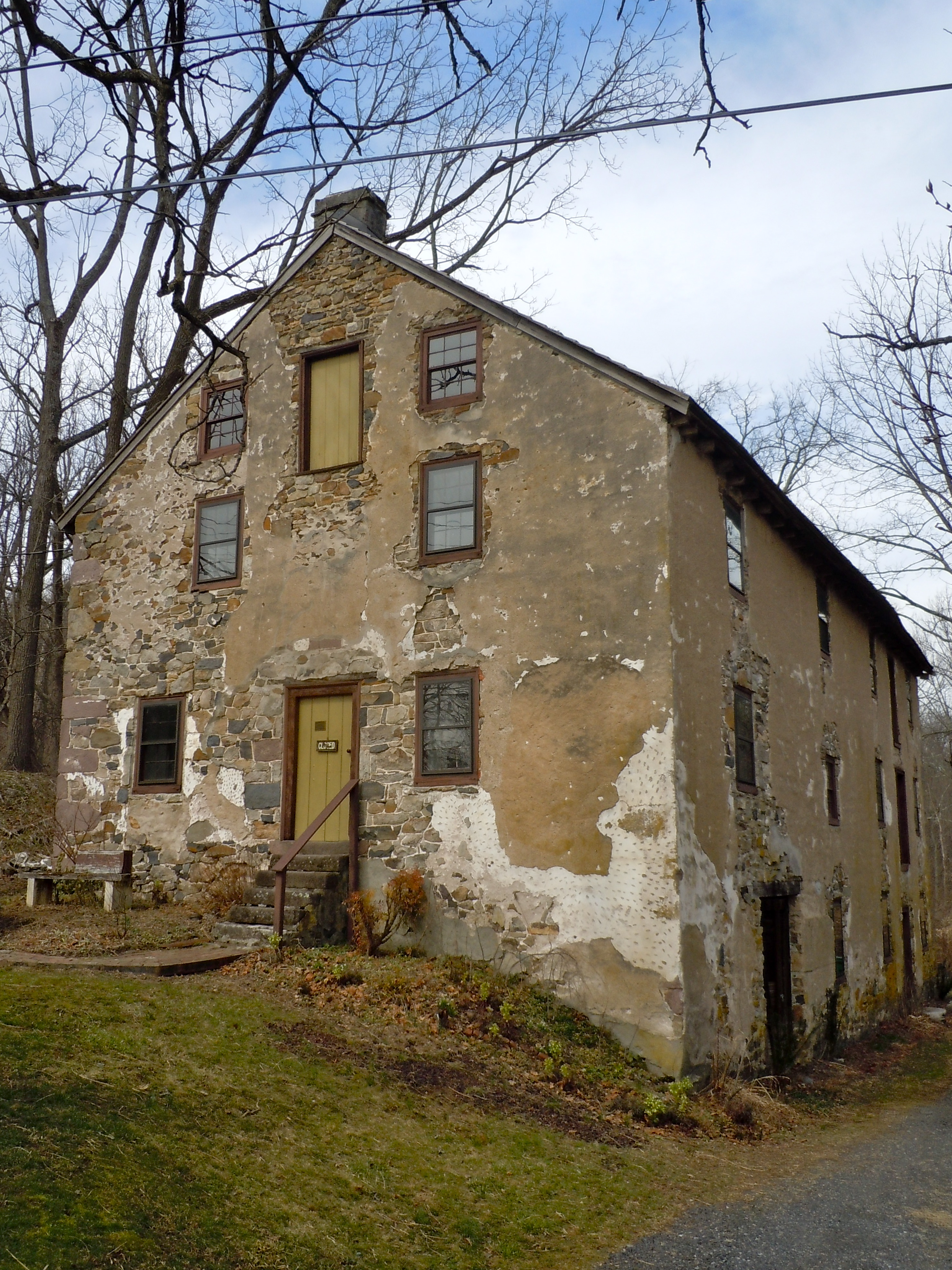 John Knauer House and Mill on the NRHP since May 30, 1985. On Pennsylvania Route 23 in Knauertown, in Warwick Township, Chester County, Pennsylvania. This is the Mill.